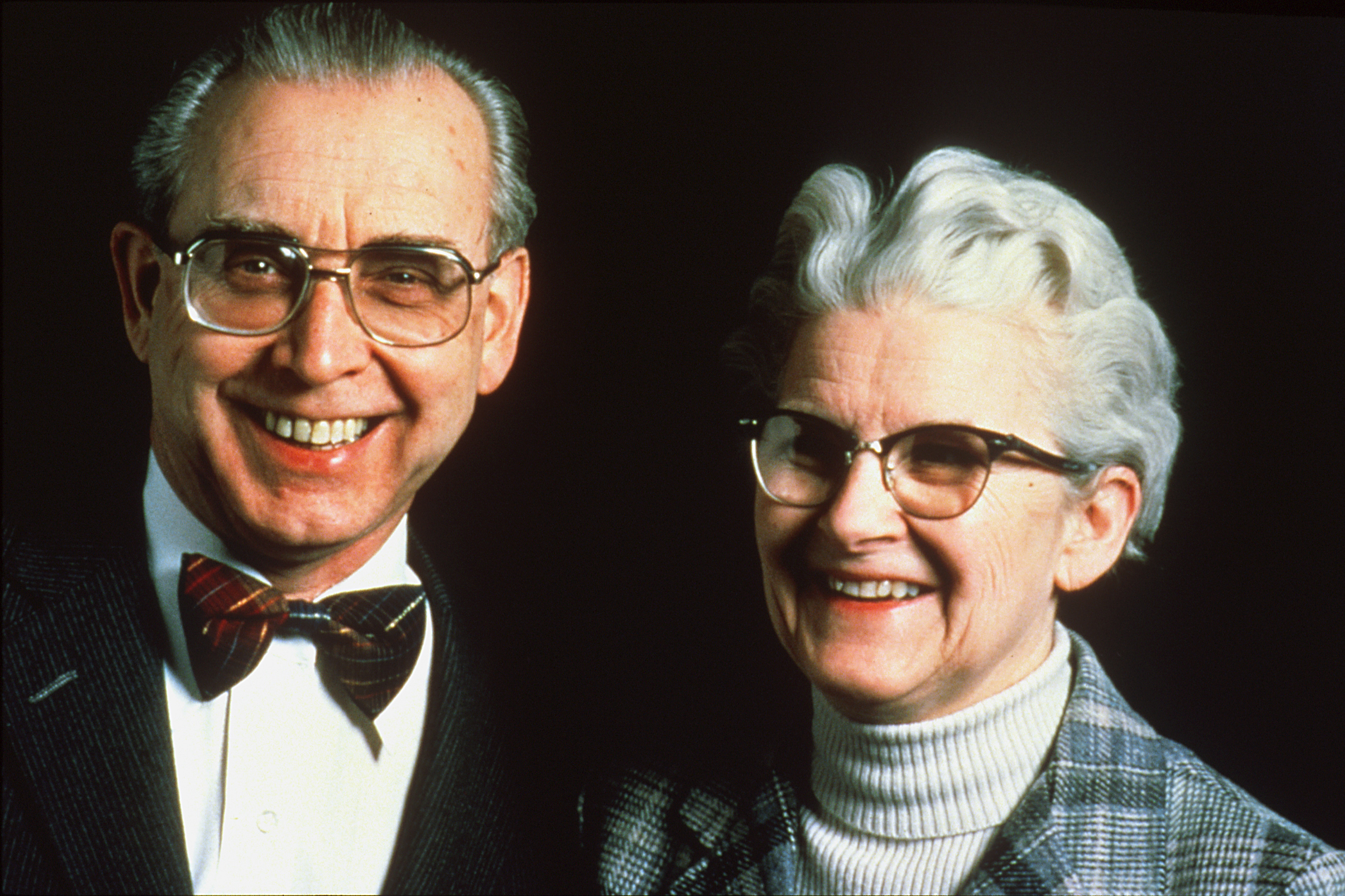 Title Miller, James and Elizabeth Description James and Elizabeth Miller, founding faculty of the University of Wisconsin McArdle Laboratory for Cancer Research. Also the Department of Oncology at UW-Madison. Topics/Categories Historical, People Type Color, Photo Source University of WI; McArdle Lab